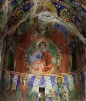 Saint_Nicholas_Church_in_Diporo_Fresco